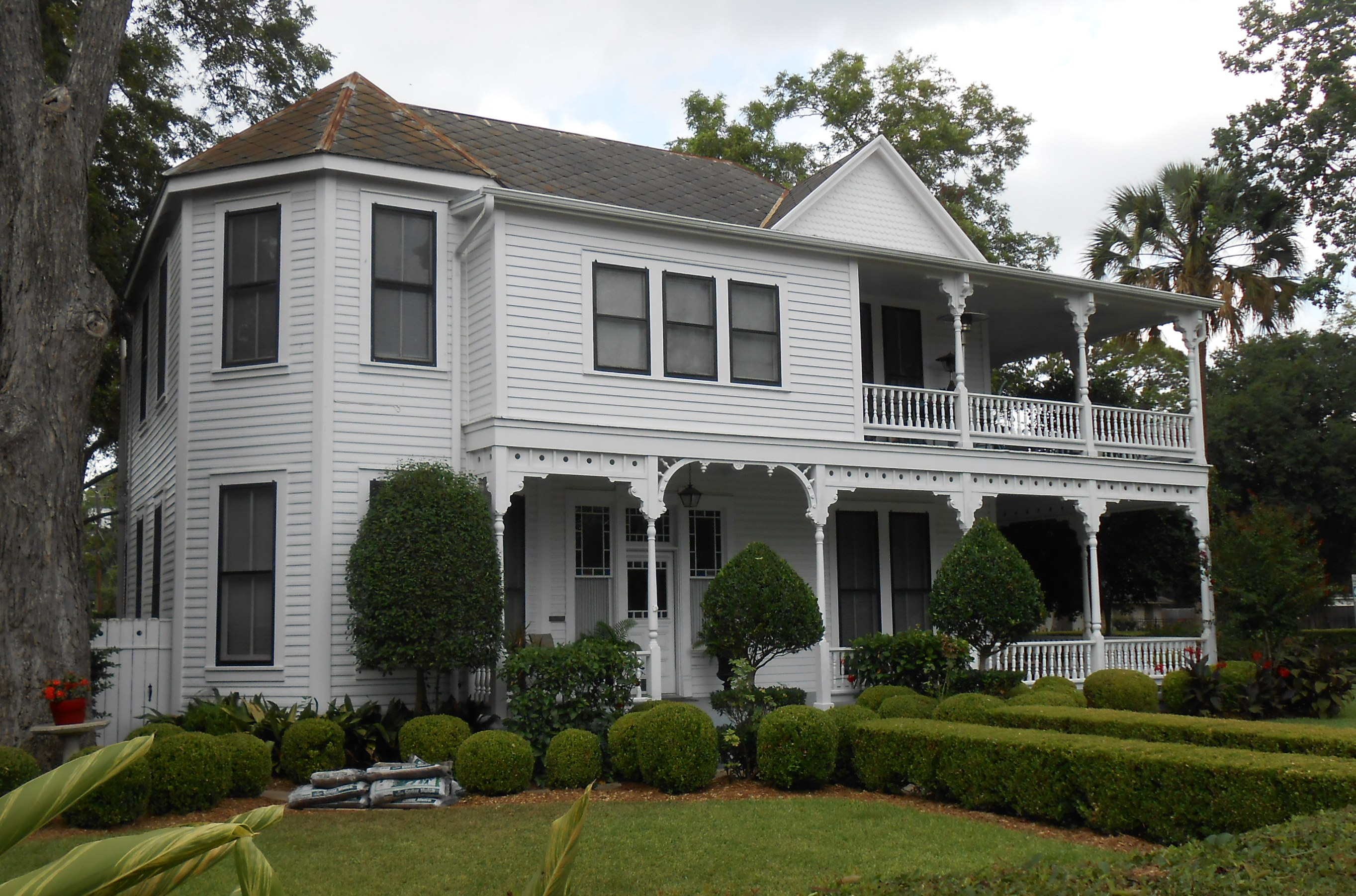 Burrough-Daniel House, 502 W. North Street, Victoria, Texas